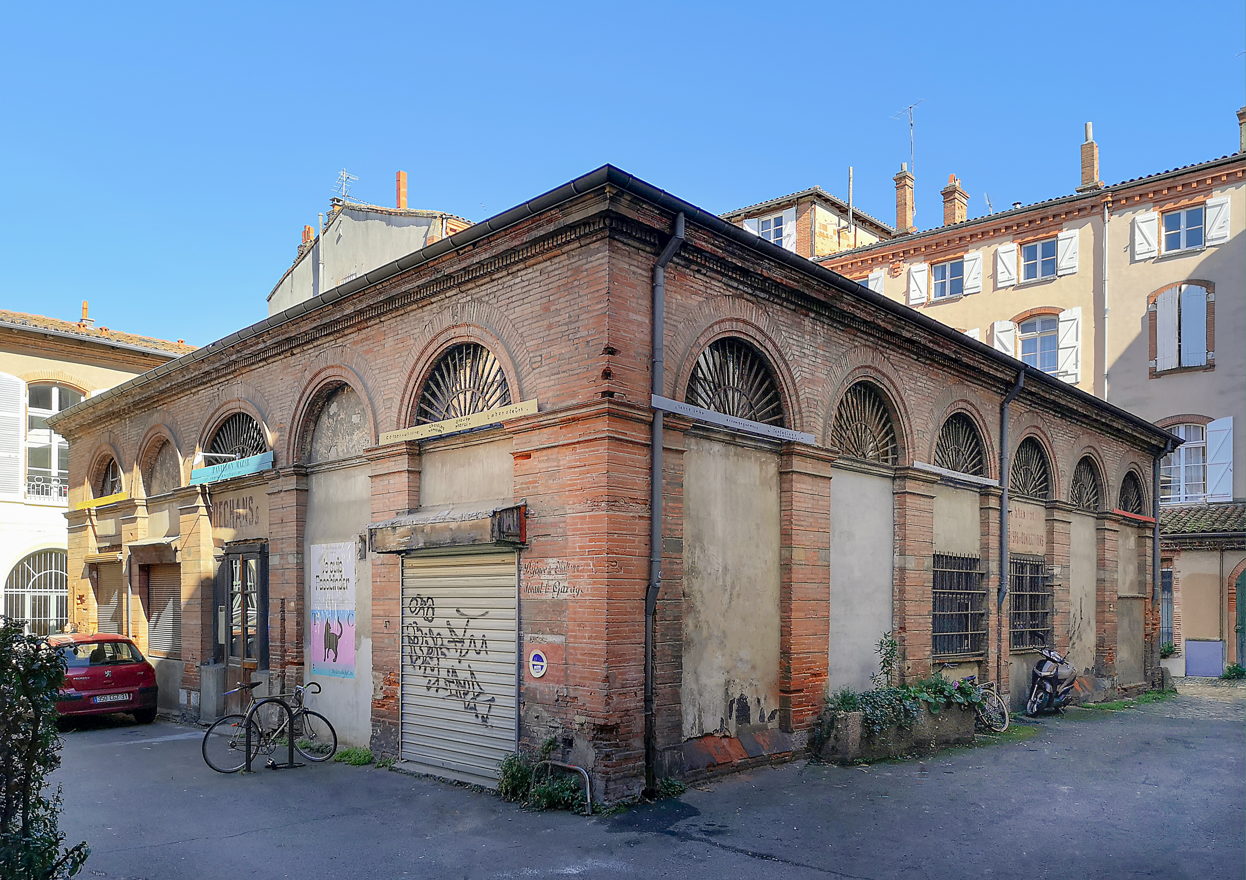 Pavilion of square shape, built in 1826, now houses a dance academy.